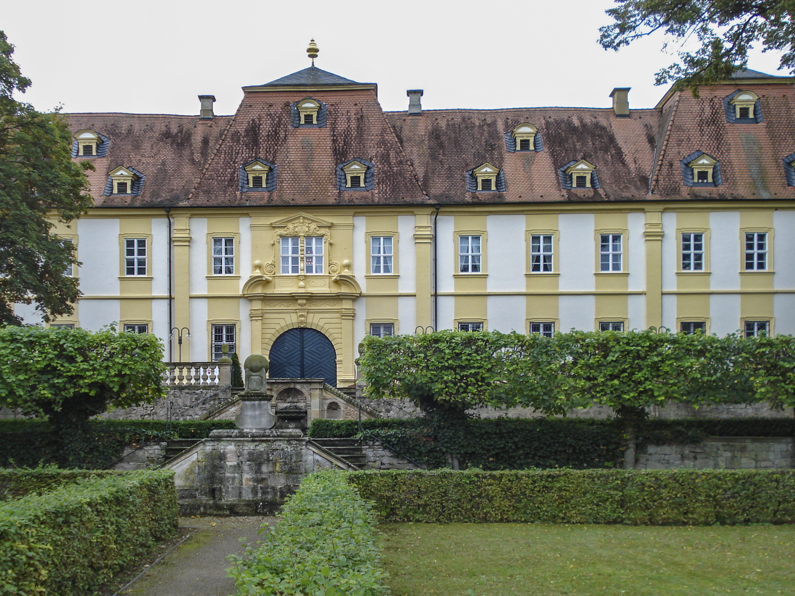 Schloss Oberschwappach, Gemeinde Knetzgau, ehemaliges Schloss des Klosters Ebrach